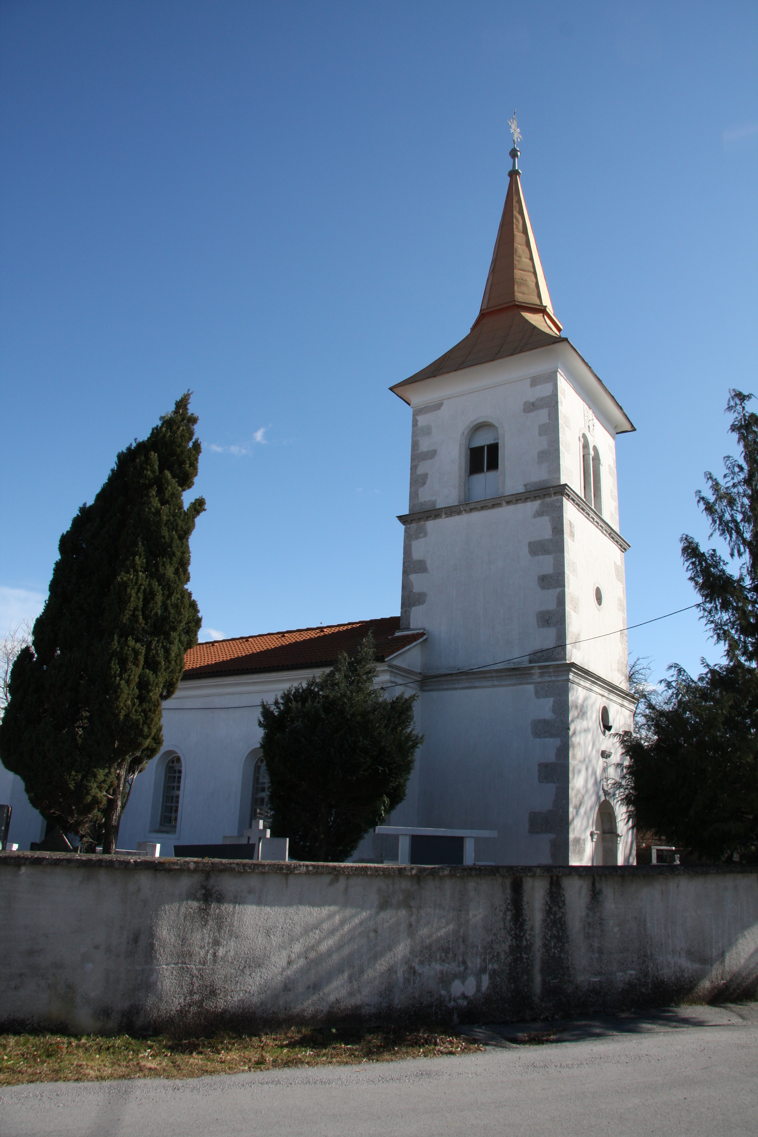 A 17th century church in Palčje (Slovenia).